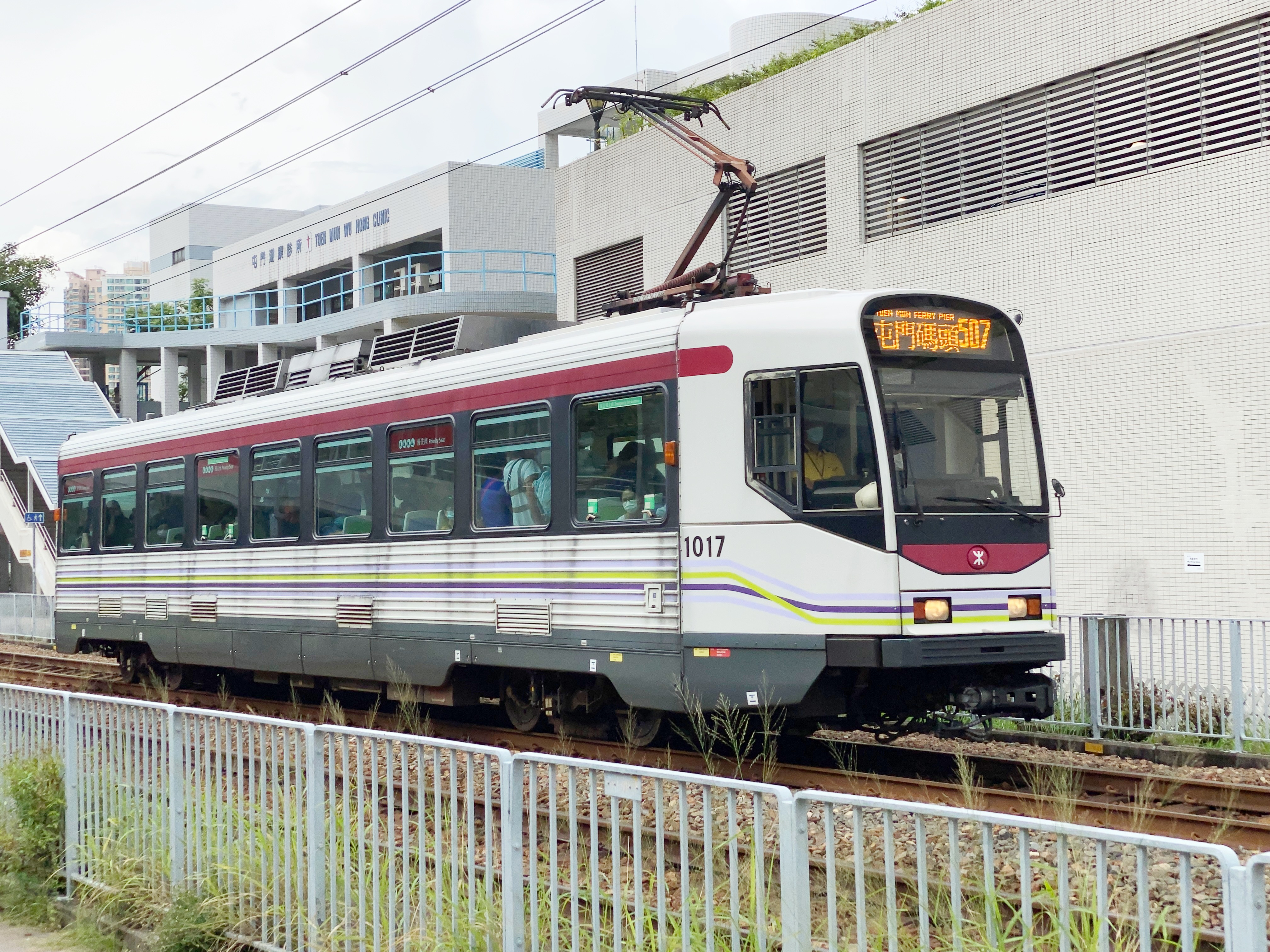 中文（香港）: This photo is taken in Wu King.